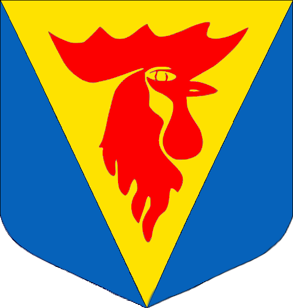 Coat of arms of Štúrovo, Slovakia